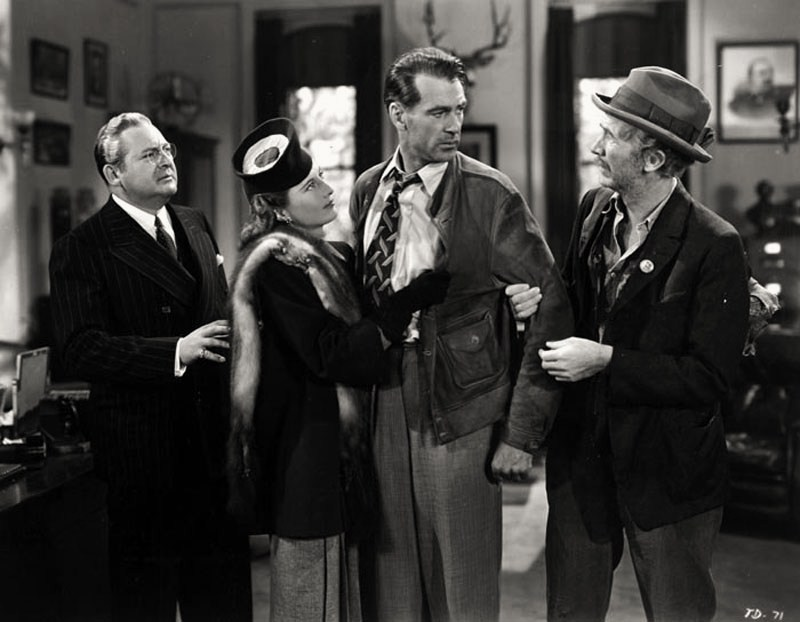 Film still showing Edward Arnold, Barbara Stanwyck, Gary Cooper, and Walter Brennan in Meet John Doe, 1941